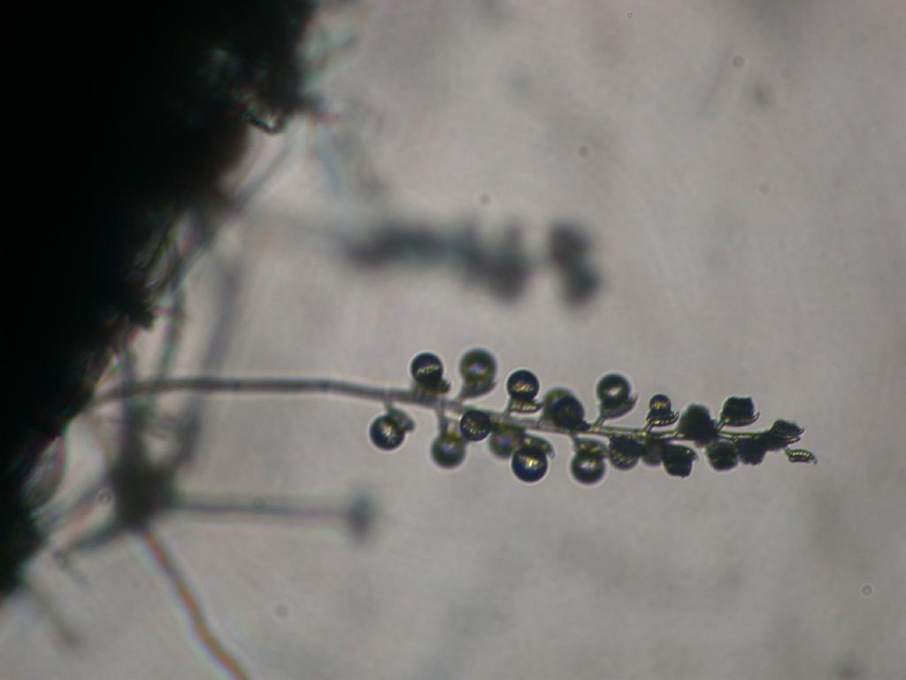 Coemansia sp. perhaps C. electa. 2004.11.Susami T, Wakayama Pref.Japan